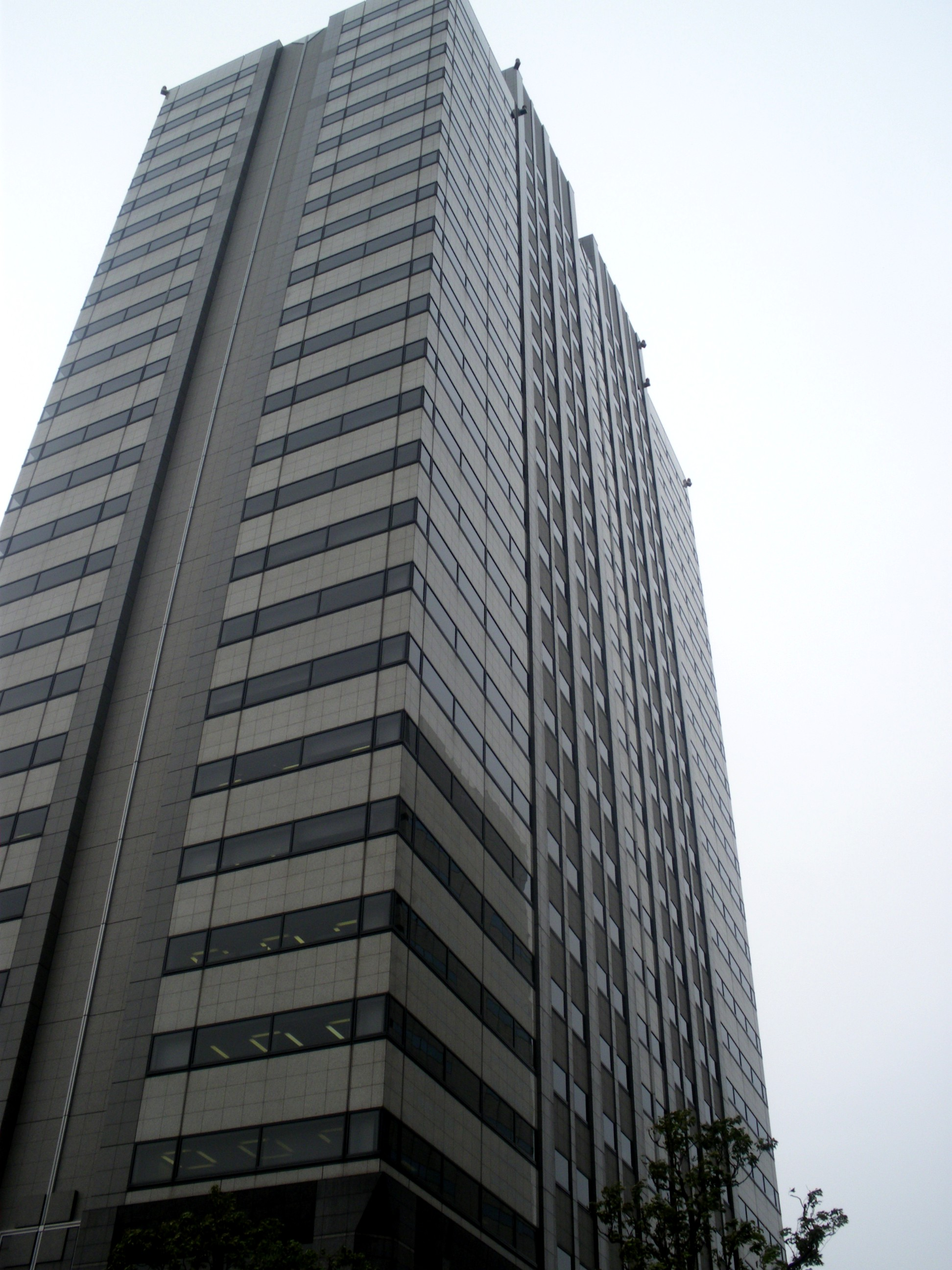 A photo of Tennouzu Central Tower.Higashishinagawa,Shinagawa-ku,Tokyo,Japan.